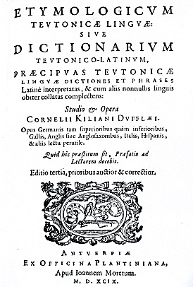 Etymologicum Teutonicae Linguae (by Cornelis Kiliaan, 1599)